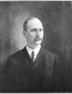 Photo from Colorado State Archives, No copyright claimed by the Archives